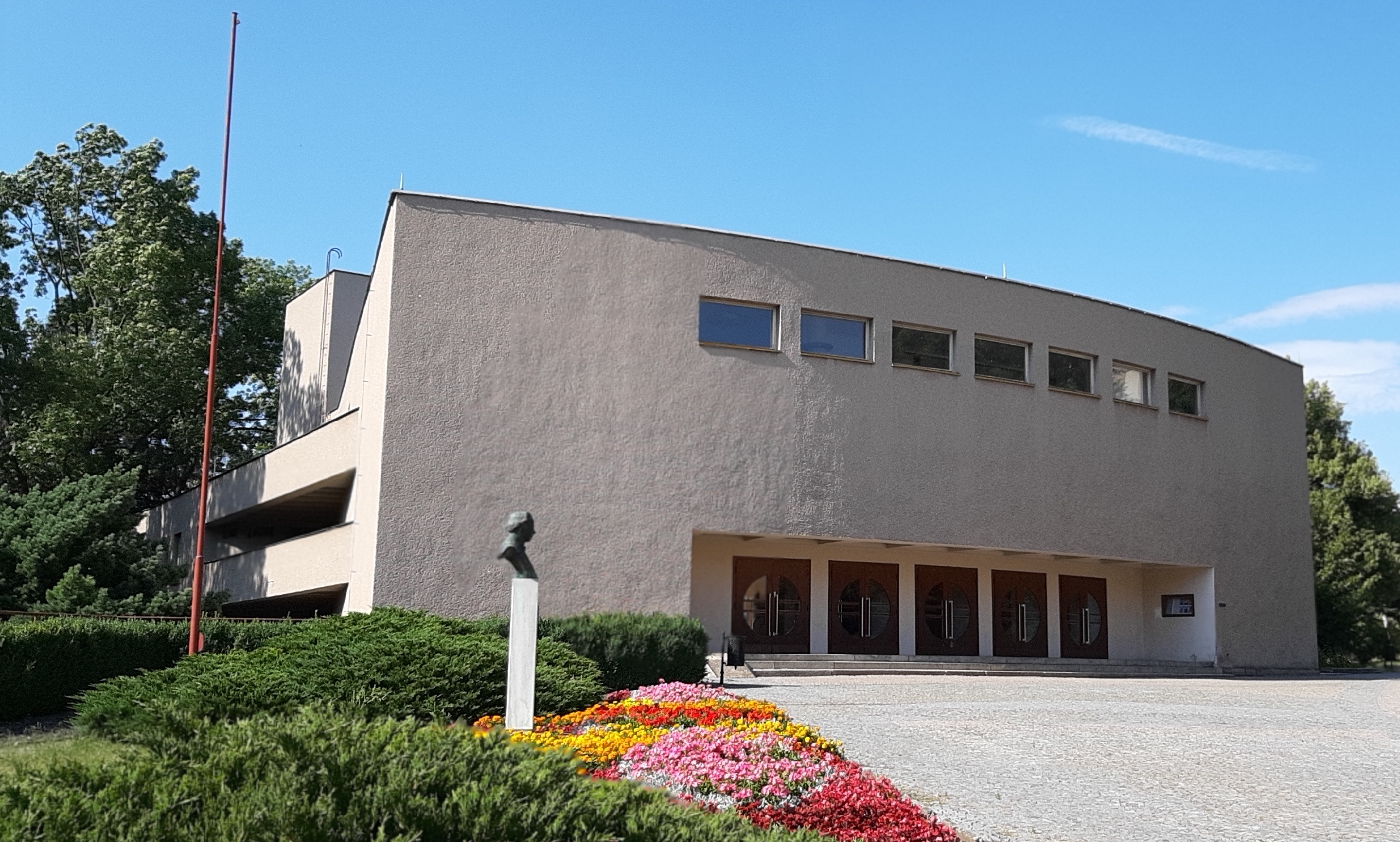 Roškot's Theater S